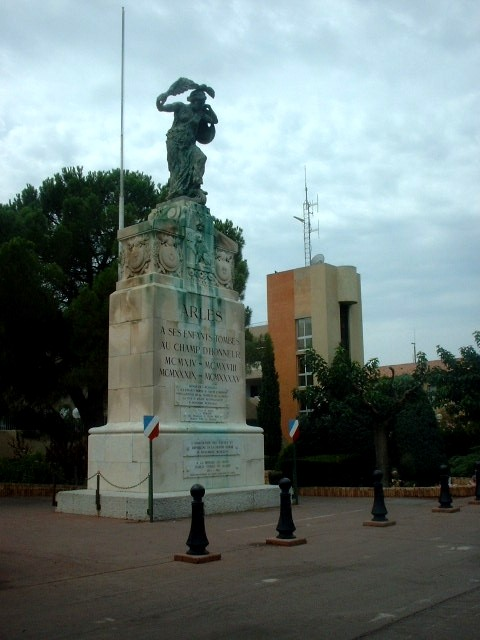 War memorial, Arles, in France